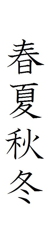 One of the most popular Yojijyukugo. It means four seasons. 春 = spring 夏 = summer 秋 = autumn , fall 冬 = winter